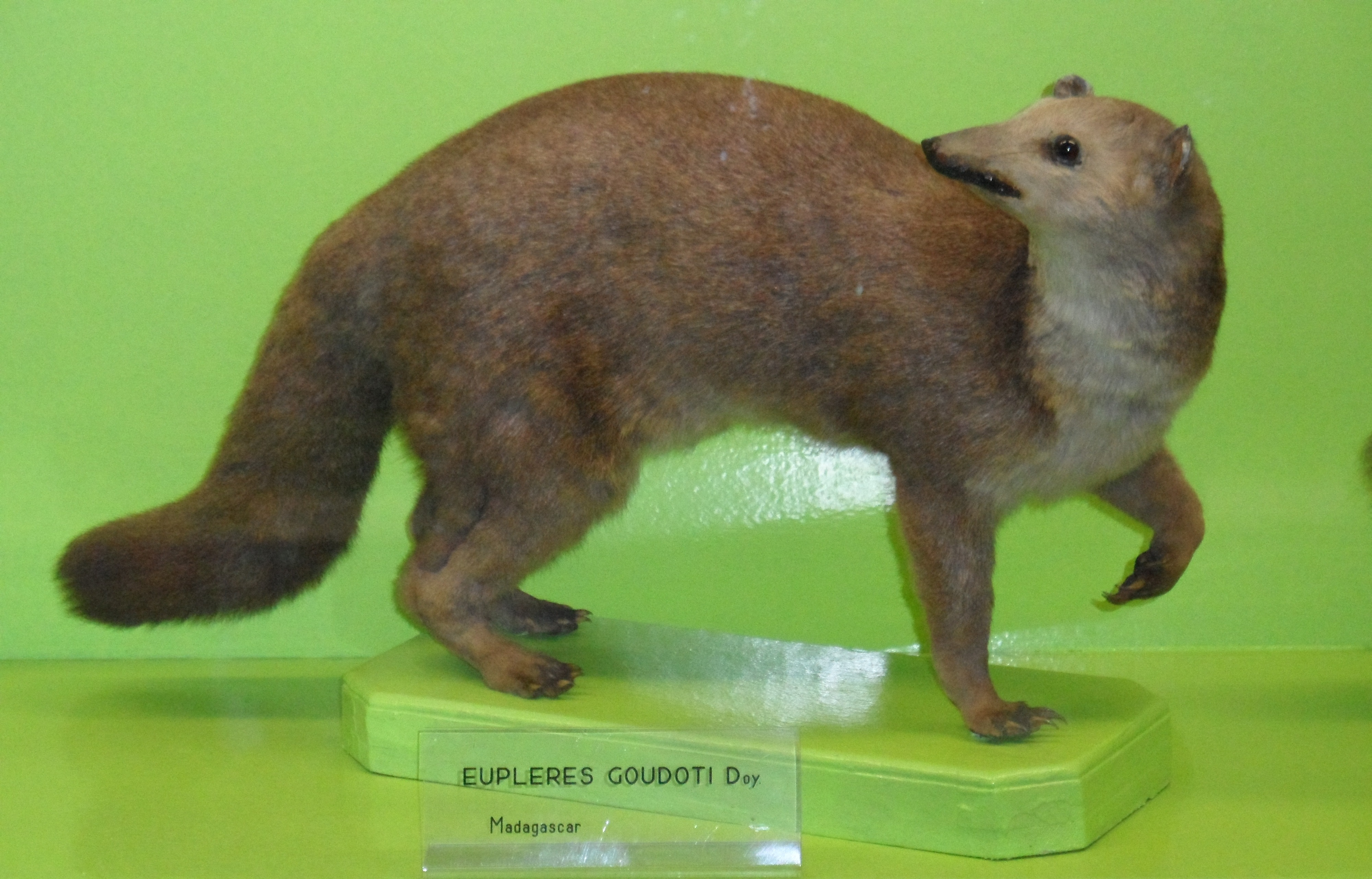 Falanouc on display in the Natural History Museum of Genoa